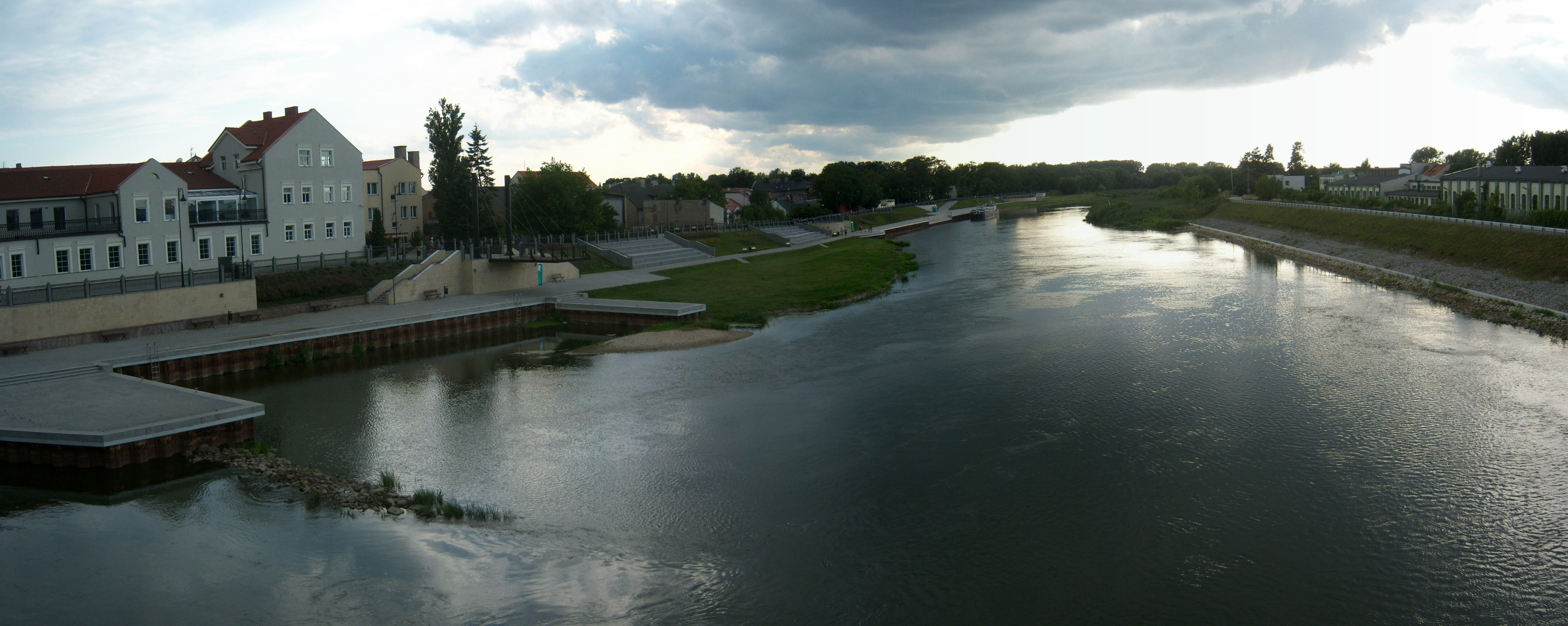 Warta river in Konin